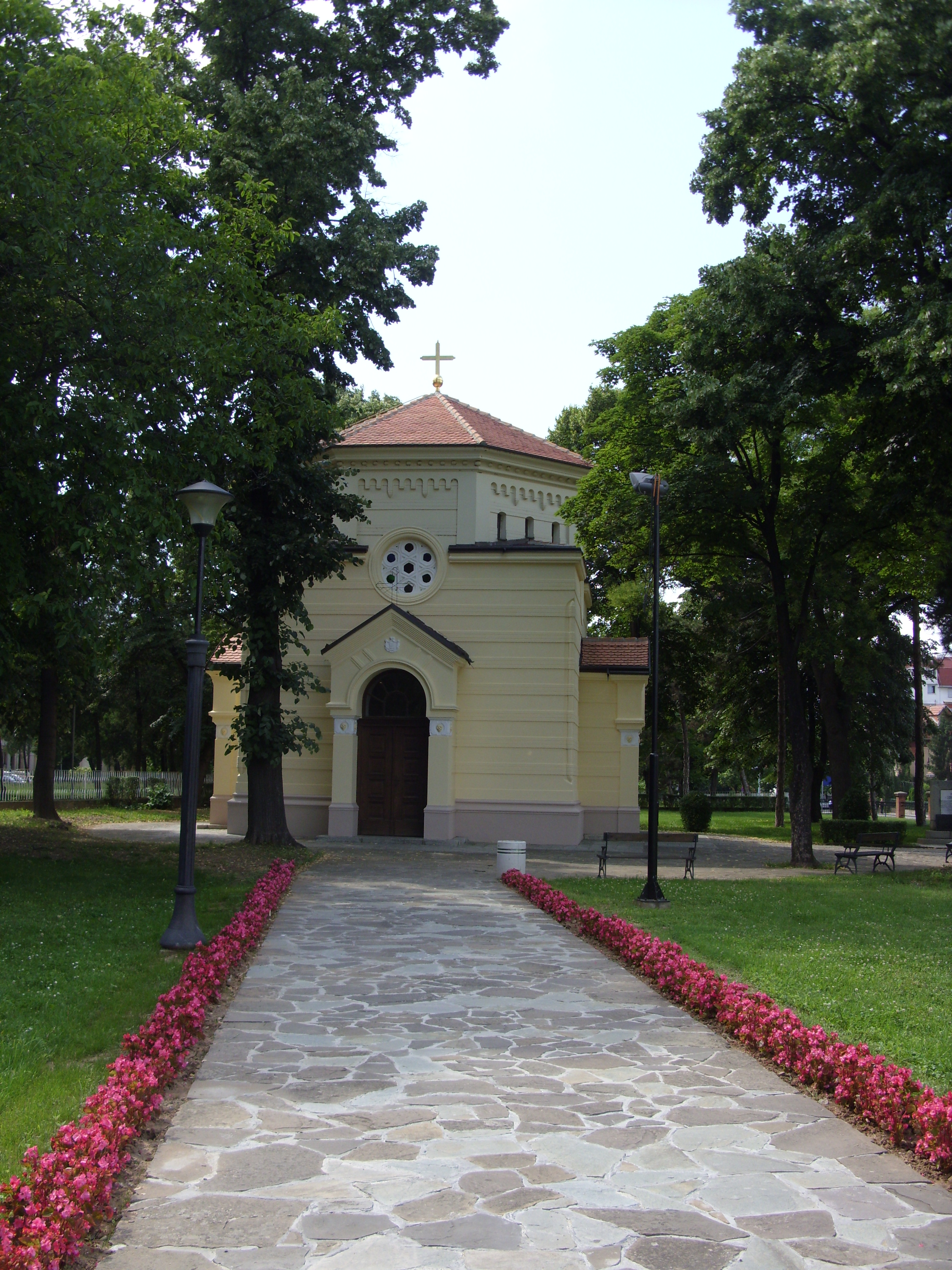 Skill Tower,city pf Nis, Serbia